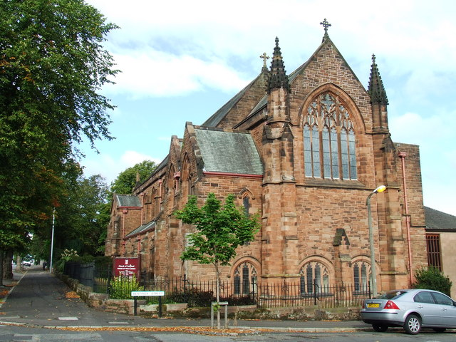 Finnart St Paul's. Church of Scotland on Newark Street. See also 559705. See the church gargoyles here 559720 559725 559733 559739.